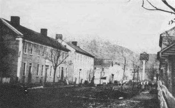 1861 view of Main Street, Philippi, Barbour County, West Virginia, USA.